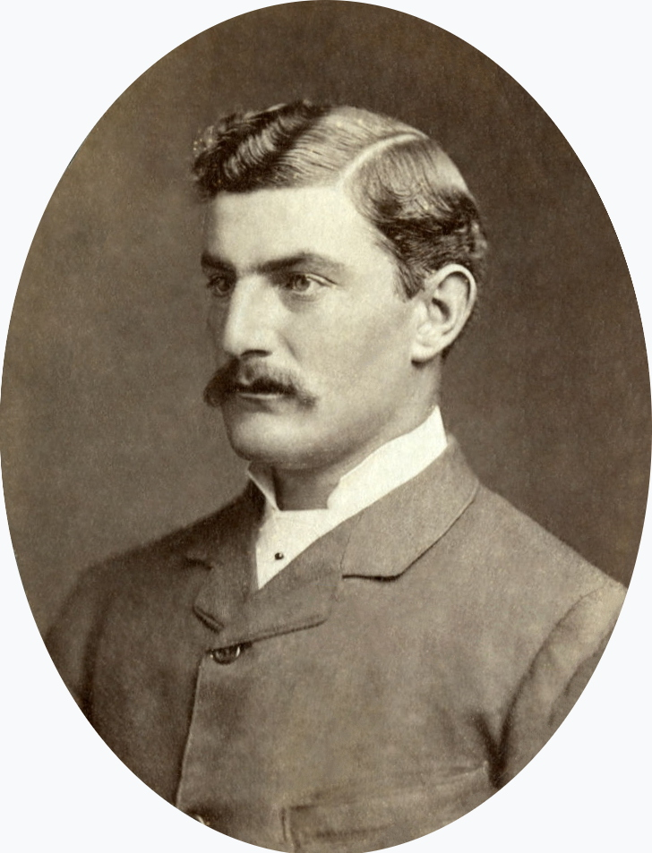 Cricketer Leland Hone who played for England, Ireland and the MCC and was also a member of The Lord Harris XI cricket team, which toured Australia and New Zealand, circa 1878-1879.